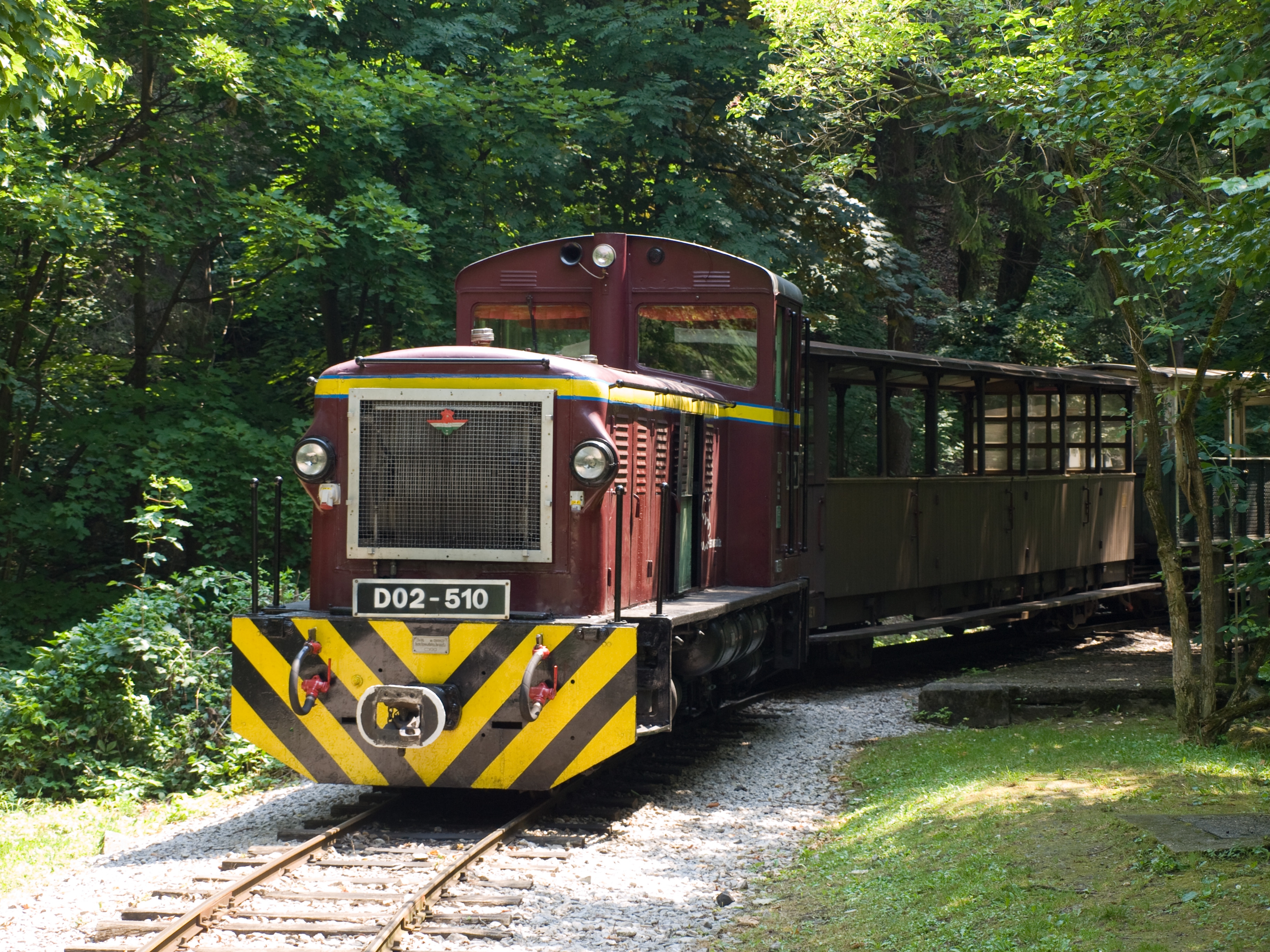 Narrow gauge railway to Lillafüred, Miskolc